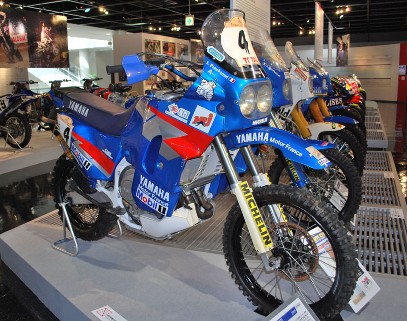 Yamaha XTZ850R ( Stephane Peterhansel, Dakar Rally 1995 )